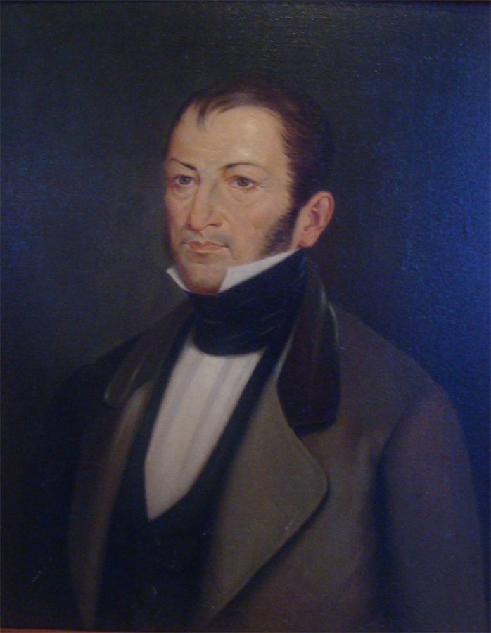 Nicolás Bravo Rueda, President of Mexico